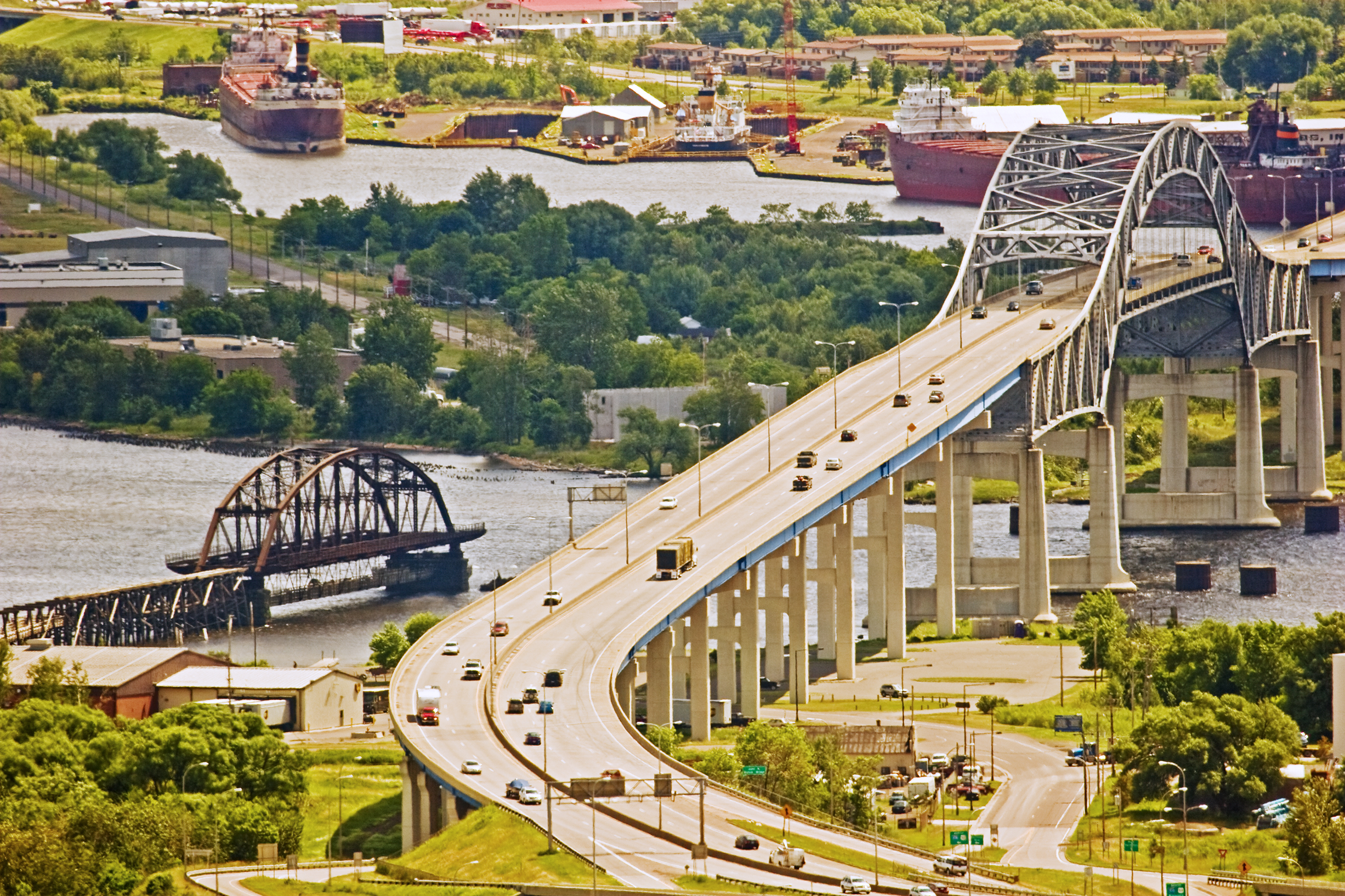 The John A. Blatnik Bridge is the bridge that carries Interstate Highway 535 and U.S. Highway 53 over the Saint Louis Bay, a tributary of Lake Superior, between Duluth, Minnesota and Superior, Wisconsin. The bridge is 7,975 feet (2,431 m) long and rises up nearly 120 feet (37 m) above the water to accommodate the seaway shipping channel.